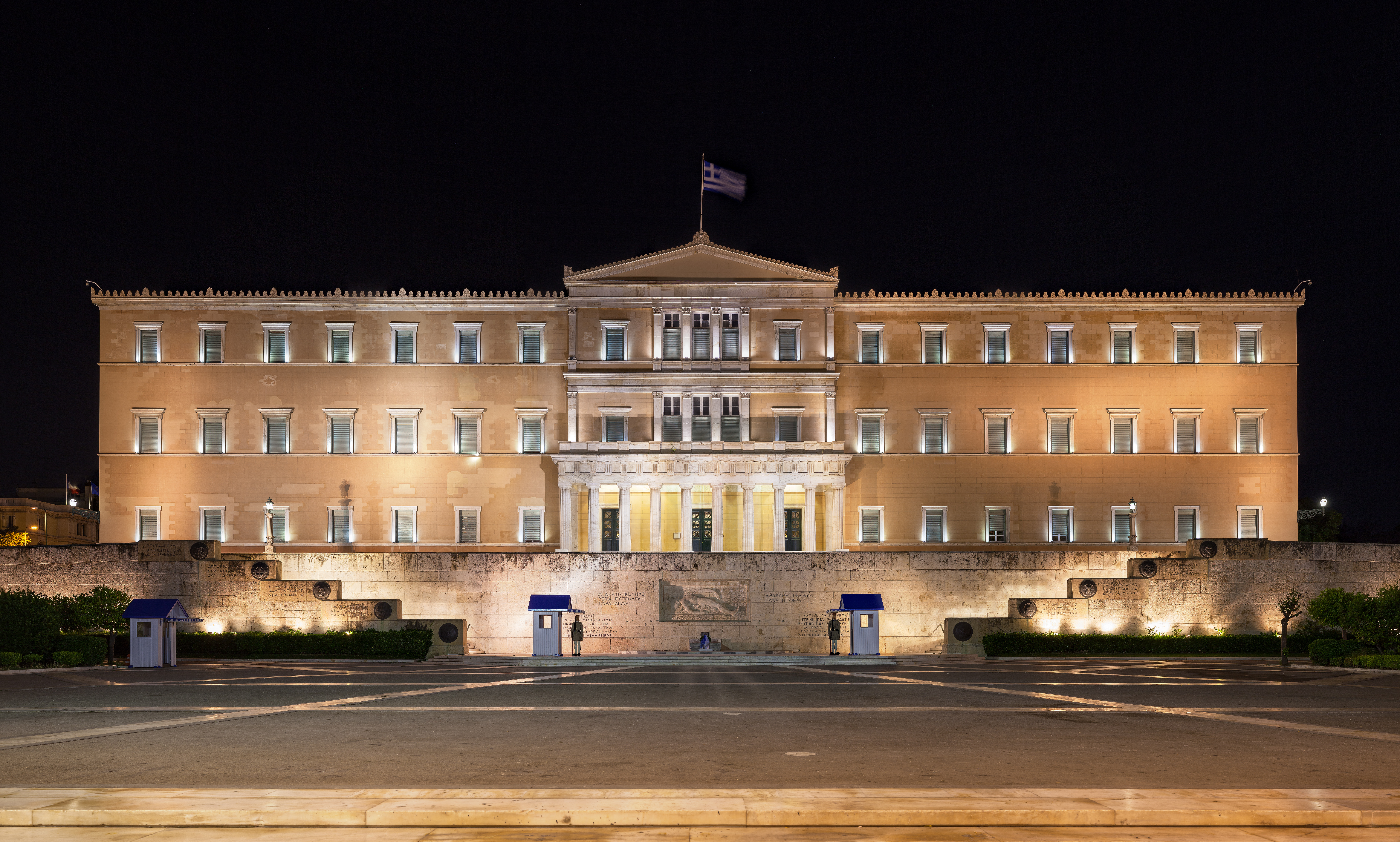 Hellenic Parliament in Athens, Greece